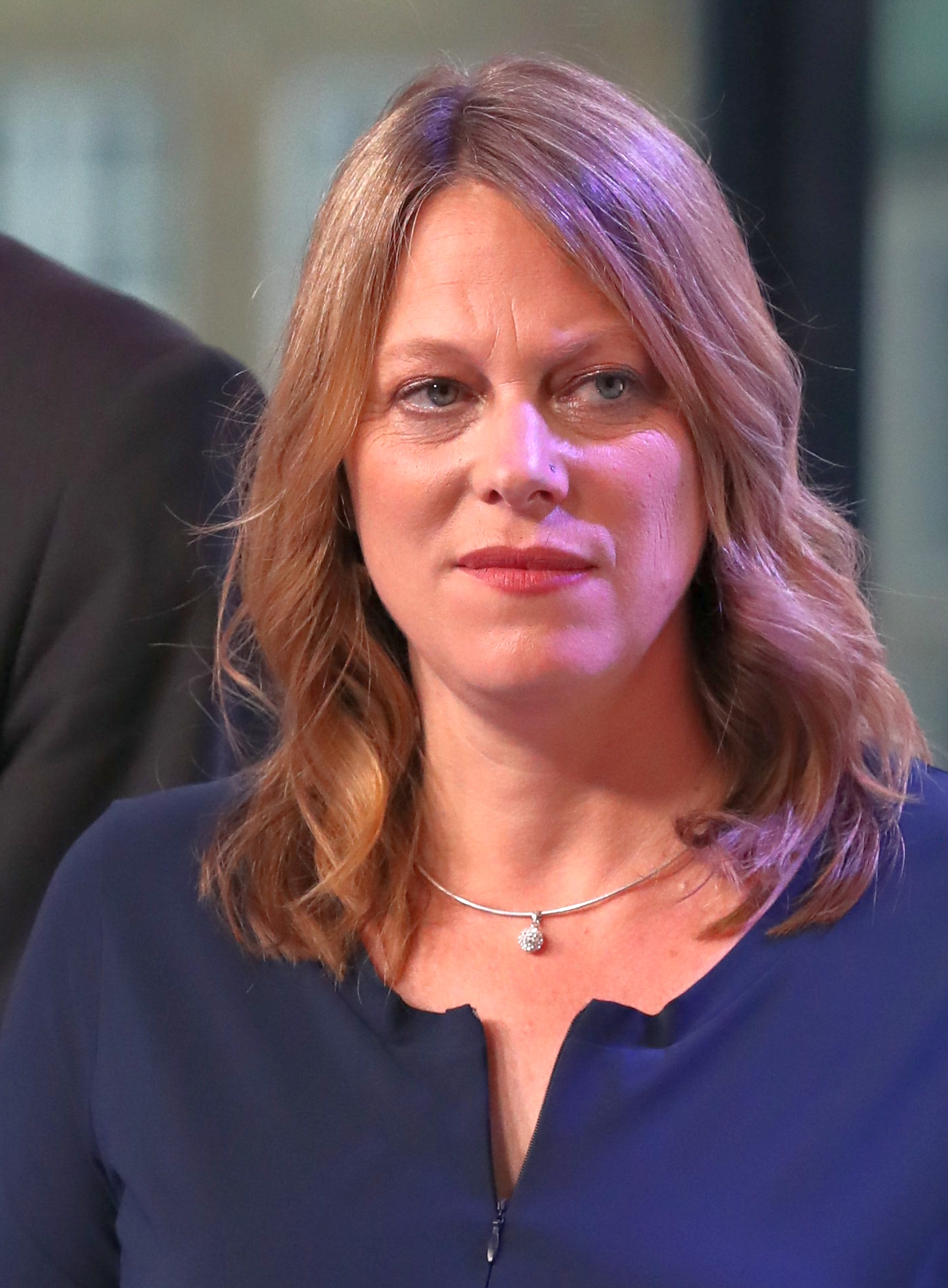 Election night Bürgerschaft of Bremen 2019: Maike Schaefer (Bündnis 90/Die Grünen)